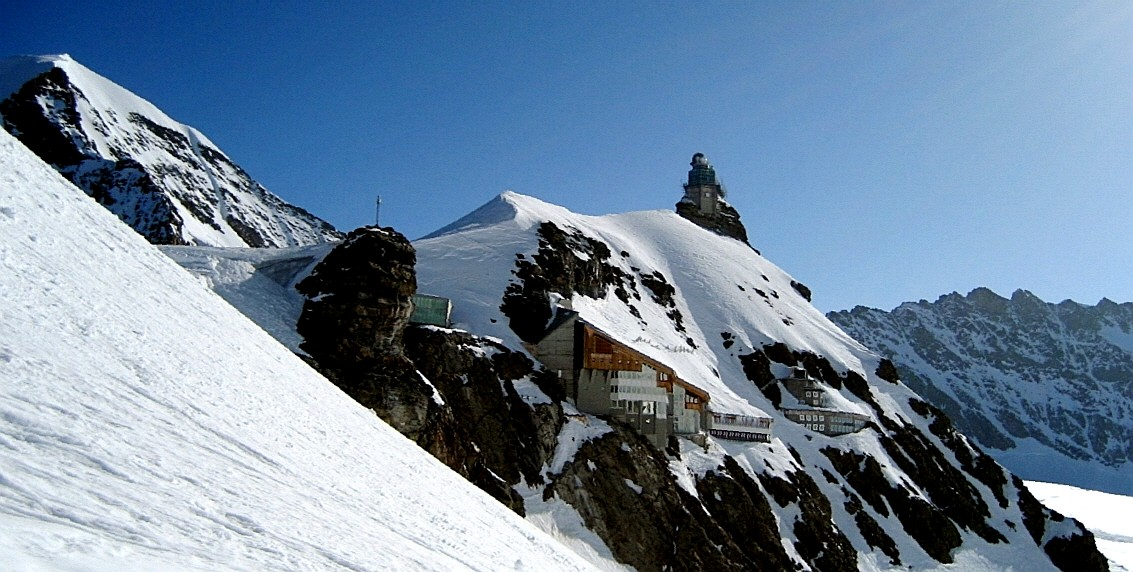 Jungraujoch, Top of Europe, Switzerland